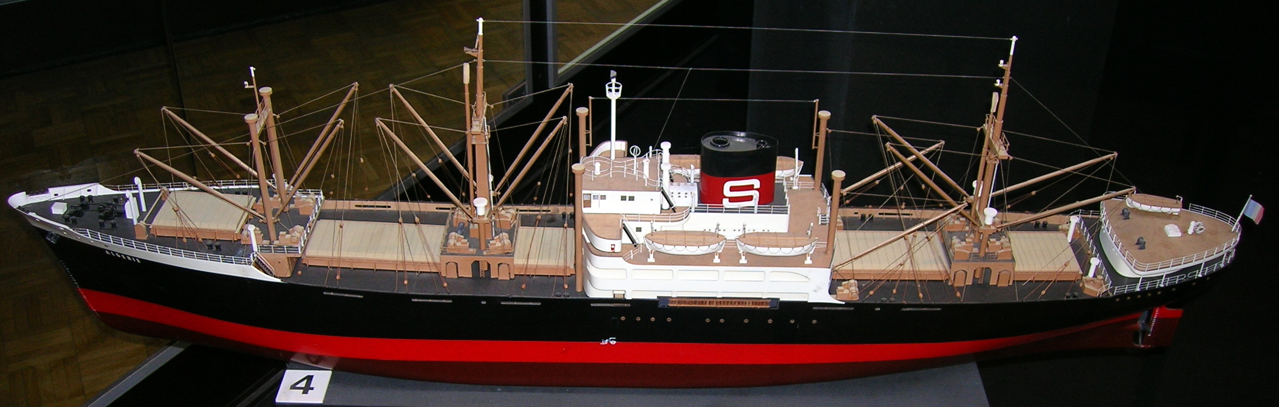 Model of the general cargo ship Algérie, 1952.